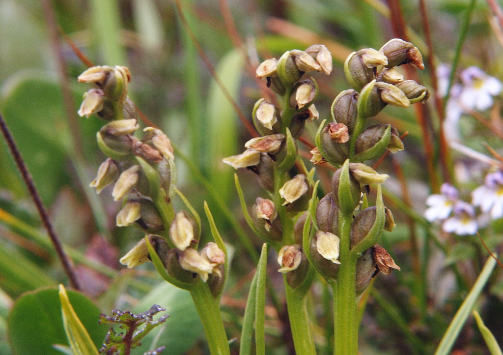 Chamorchis alpina, Allgäuer Alpen, Germany